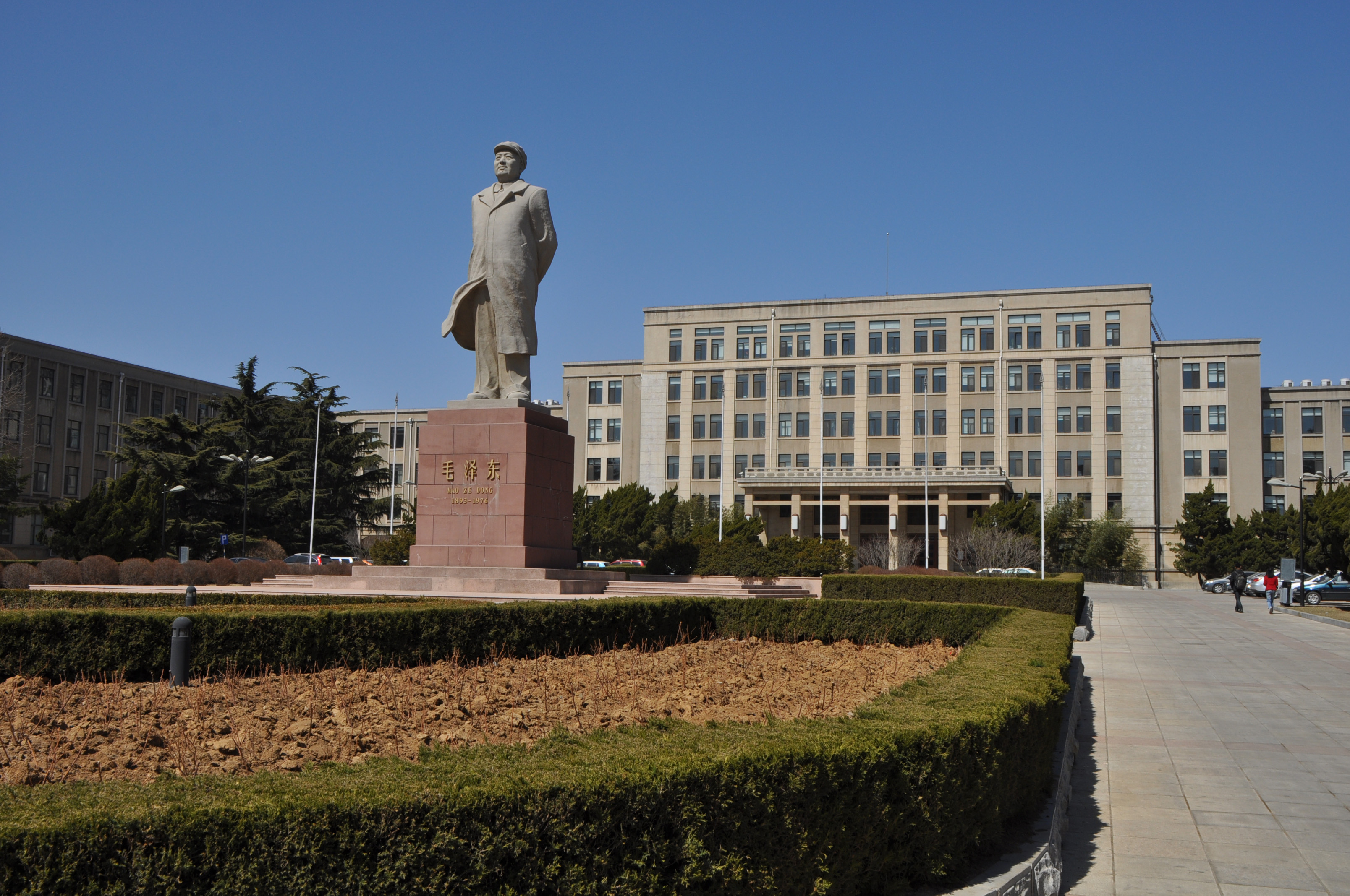 Dalian University of Technology - Campus